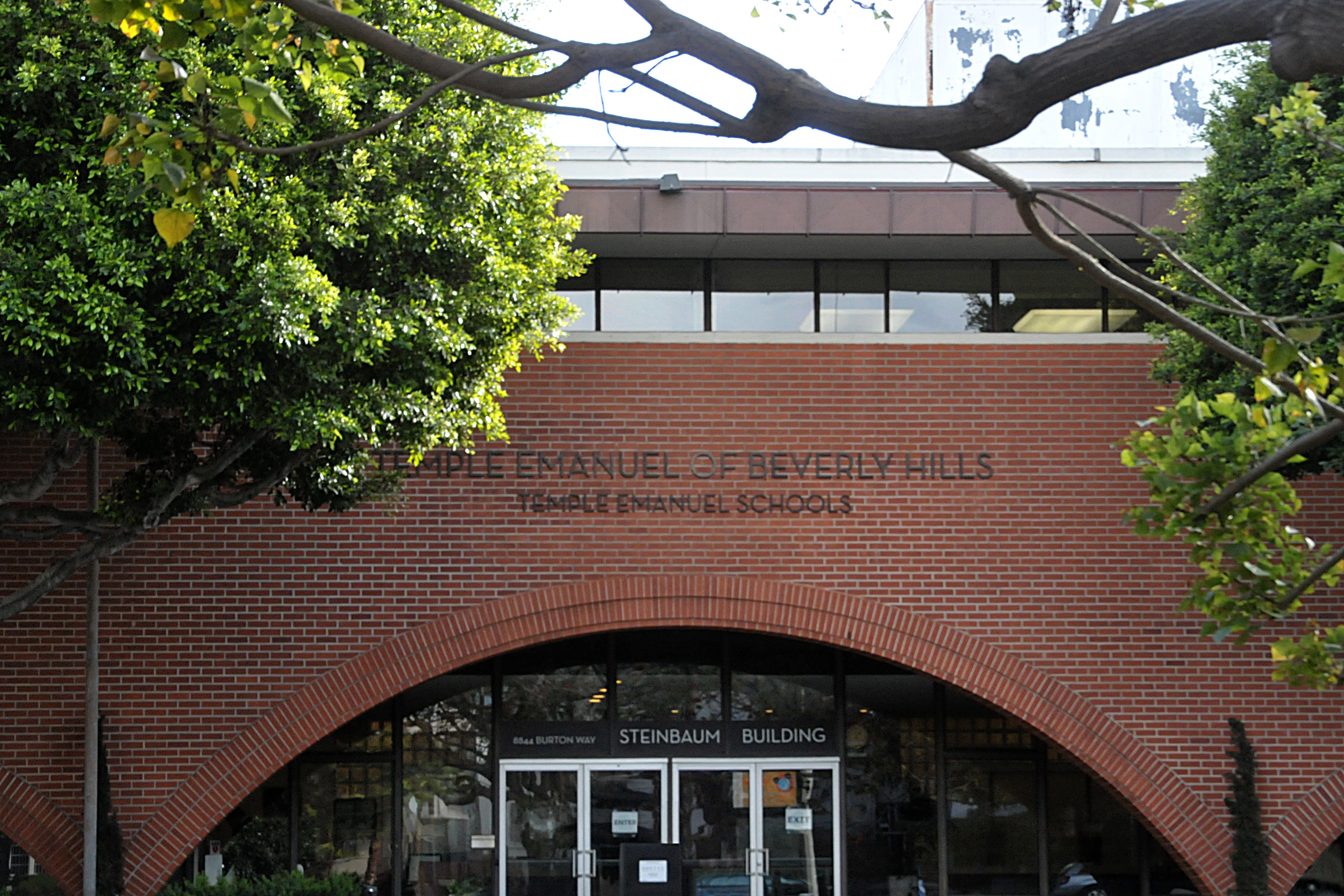 Temple Emanuel, Beverly Hills, California on March 2, 2014 - photo by Francis of